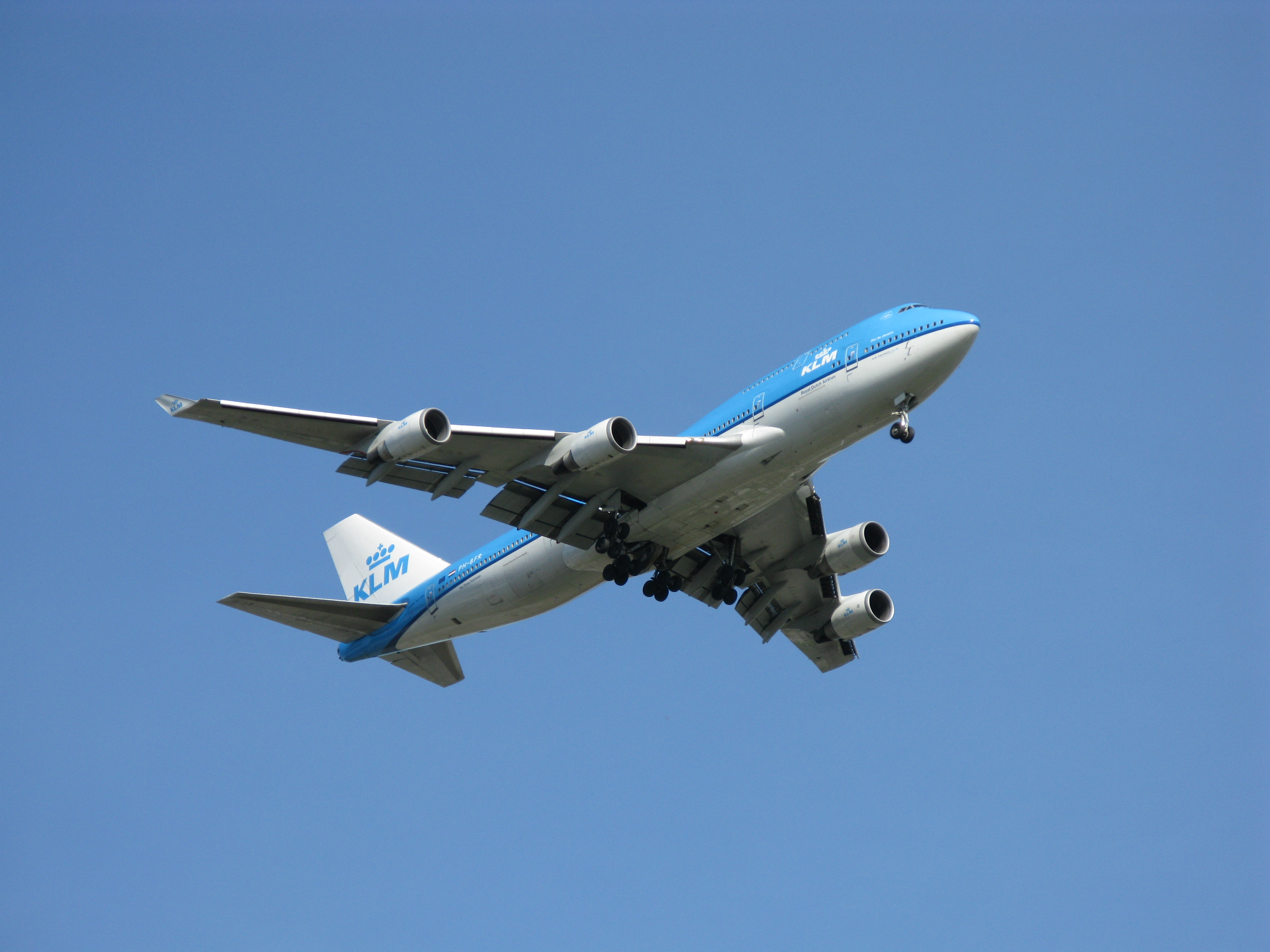 A KLM Boeing 747-400 (civil registration : PH-BFR) on final for runway 24R at Montréal-Trudeau International Airport (YUL/CYUL).